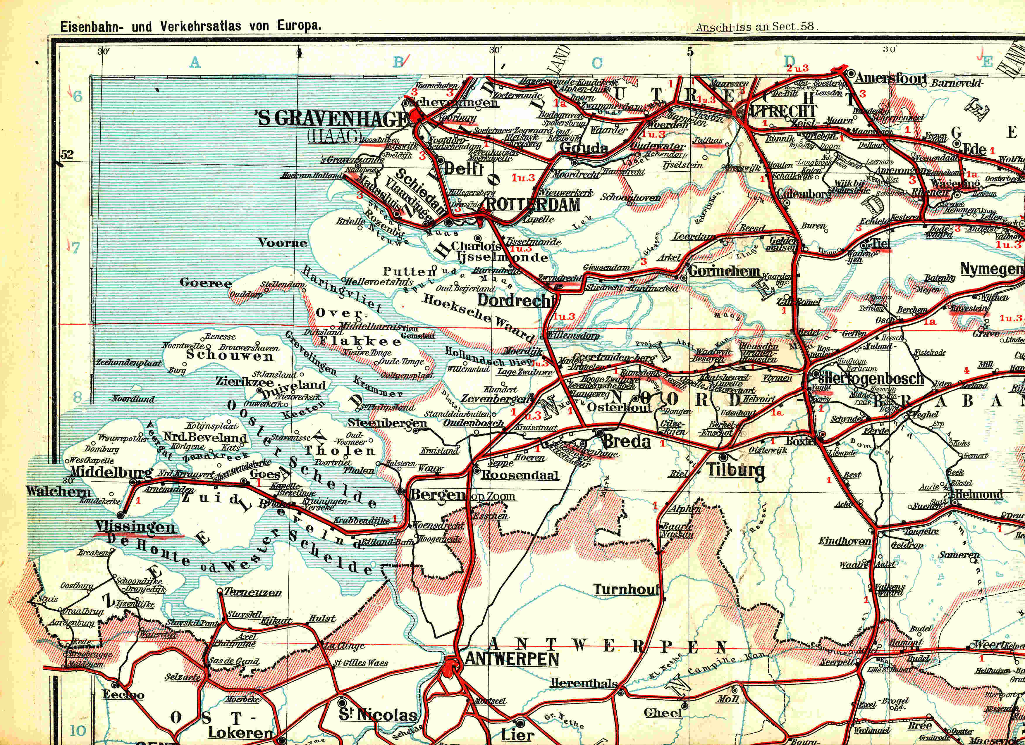 Historical map of railroads in the south-west Netherlands